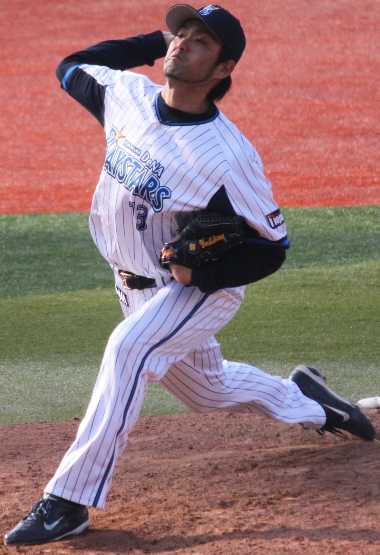 Teruaki Yoshikawa, pitcher of the Yokohama DeNA BayStars, at Yokohama Stadium.